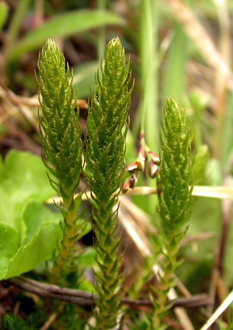 Selaginella selaginoides, Switzerland